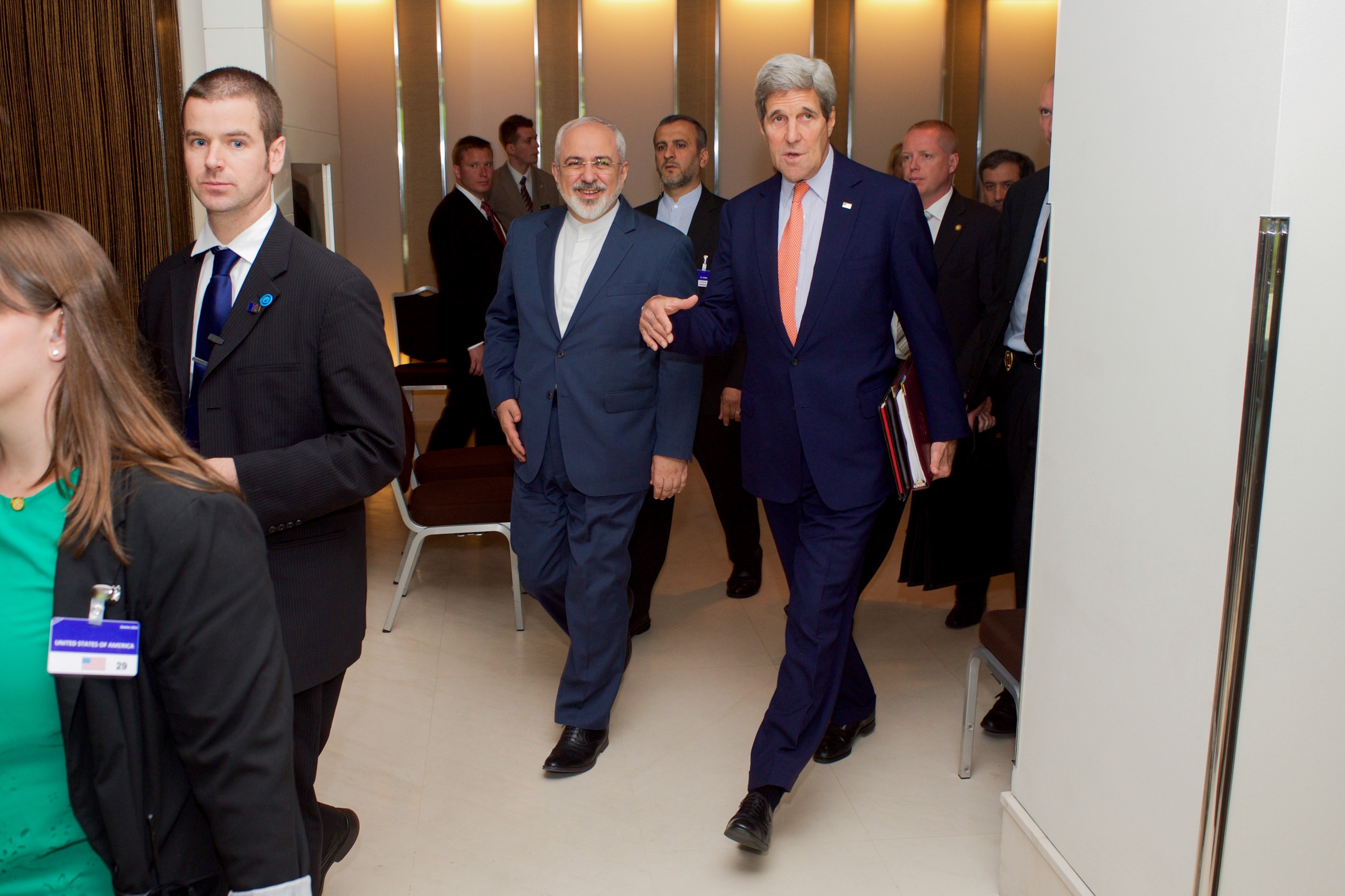 U.S. Secretary of State John Kerry walks with Iranian Foreign Minister Javad Zarif as they arrive at a meeting room in Geneva, Switzerland, on May 30, 2015, for the latest round in the P5+1 negotiations about the future of Iran's nuclear program. [State Department Photo/ Public Domain]